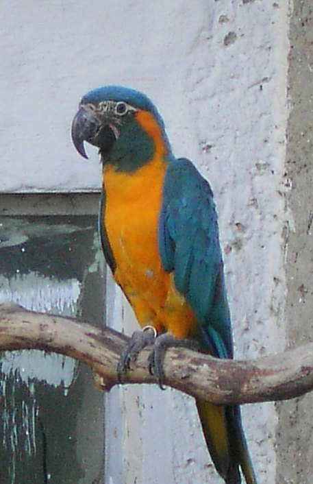 Blue-throated Macaw